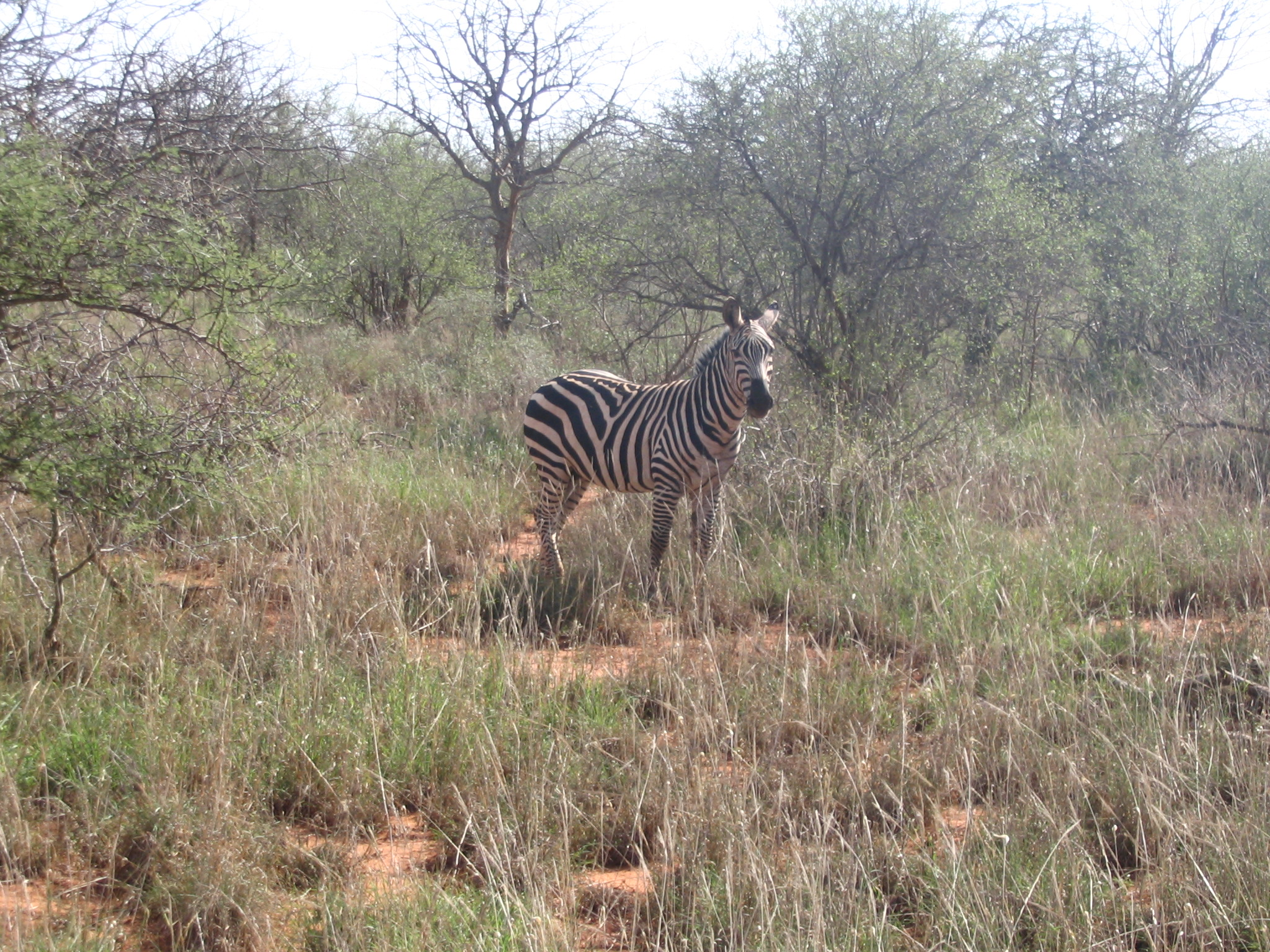 Equus quagga boehmi (Grant's Zebra) individual in Tsavo West National Park, Kenya.